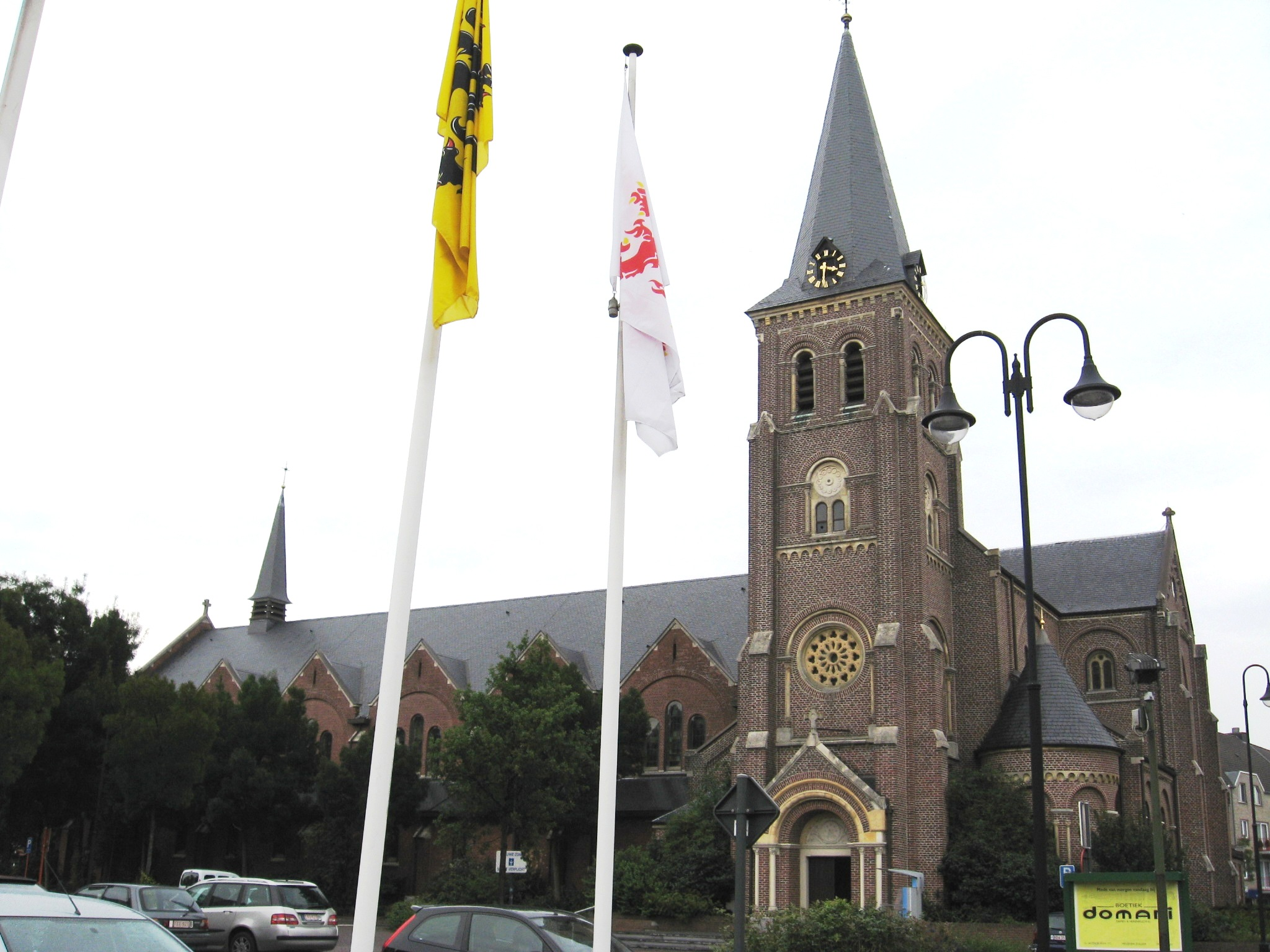 Church of Saint Willibrordin Heusden, Heusden-Zolder, Limburg, Belgium